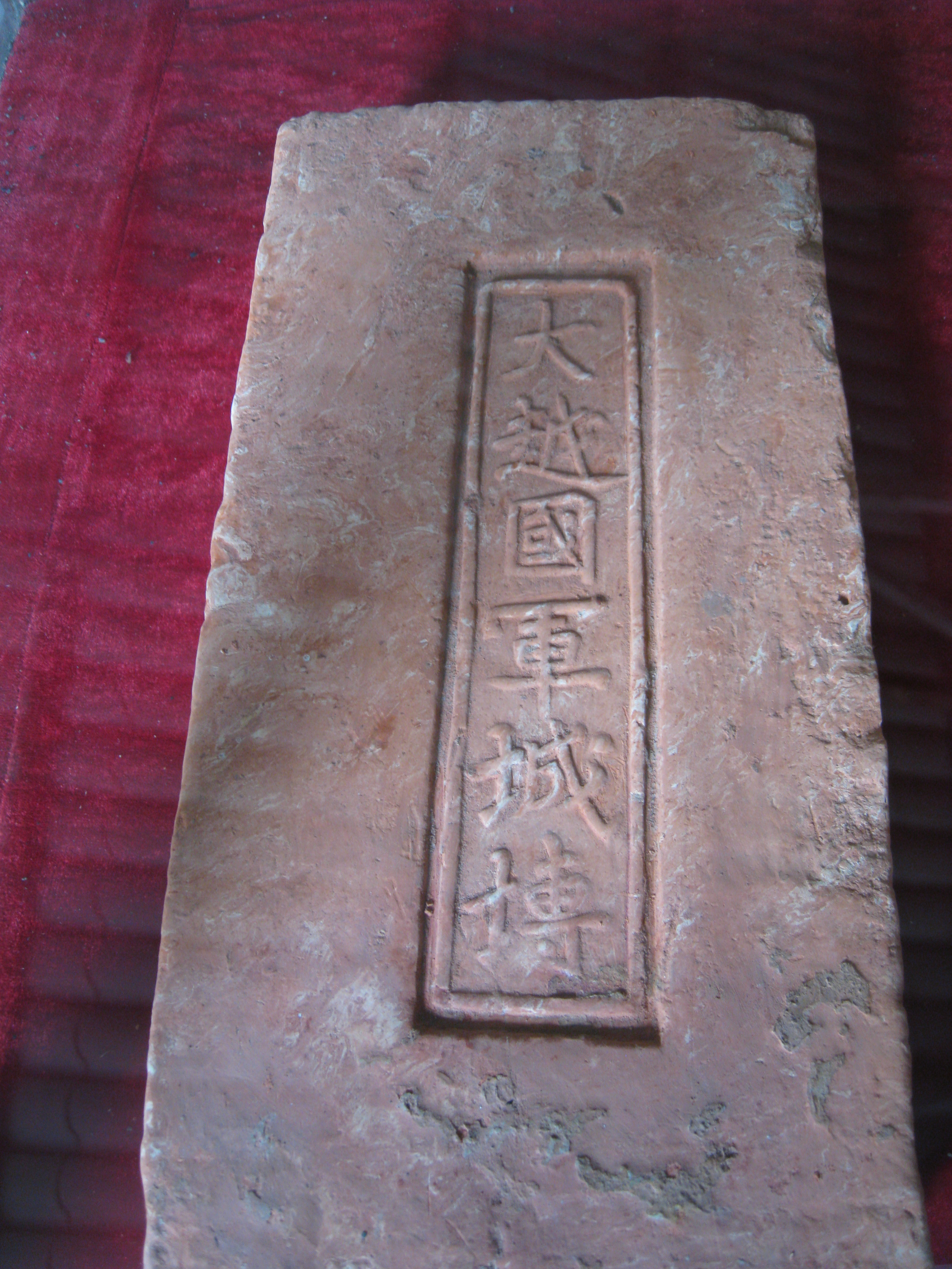 Bricks used in the contruction of the royal palaces of the Dinh and Early Le Dynasties.